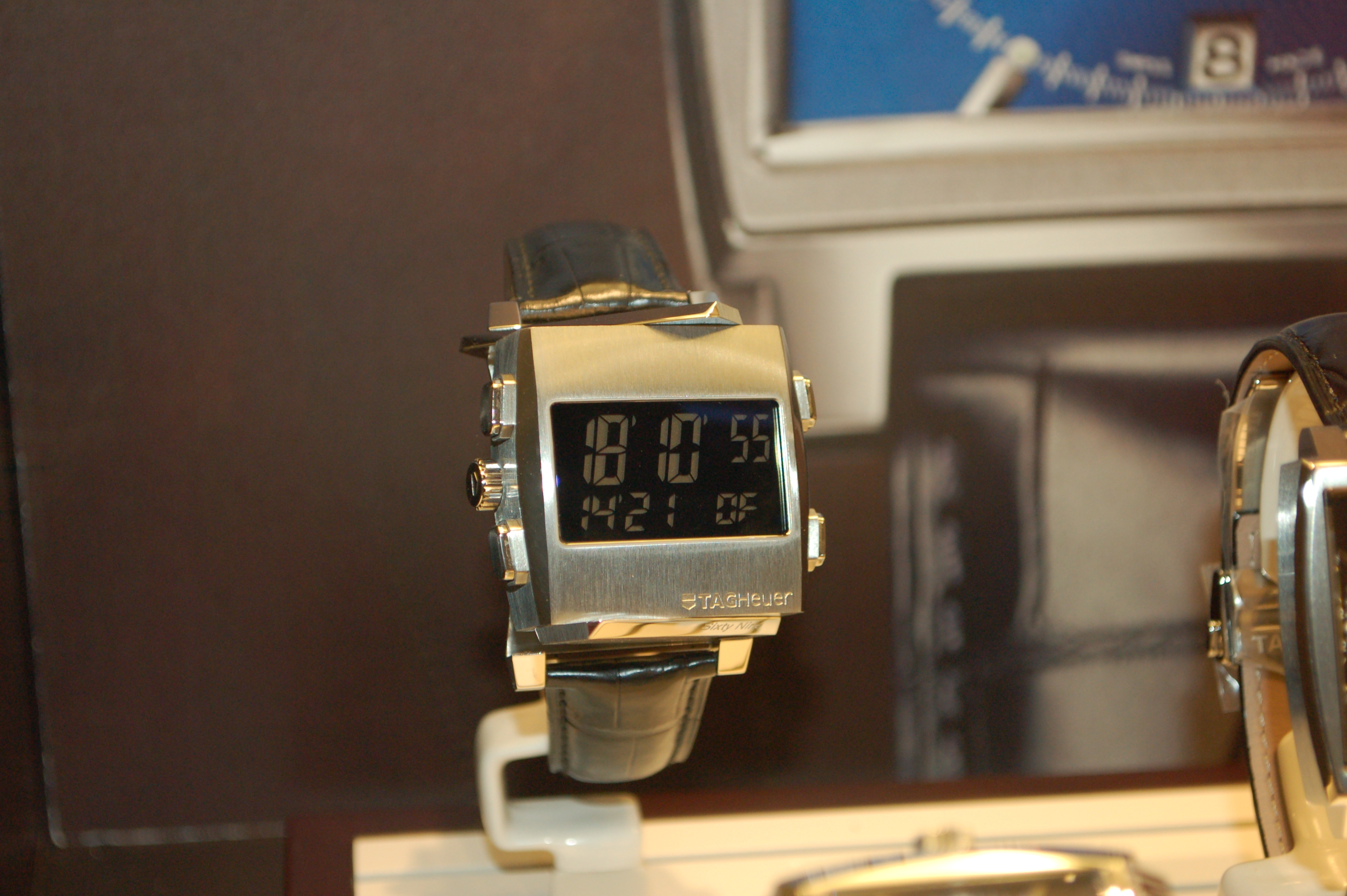 TAG Heuer Sixty Nine. This is a dual calibre watch. Pictured here is the digital side, but there is also an analog dial on the flip side. The watch rotates so that the wearer can choose which side will be visible.